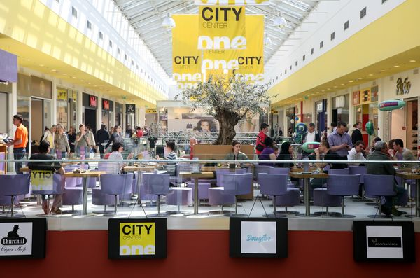 City Center one West-interior